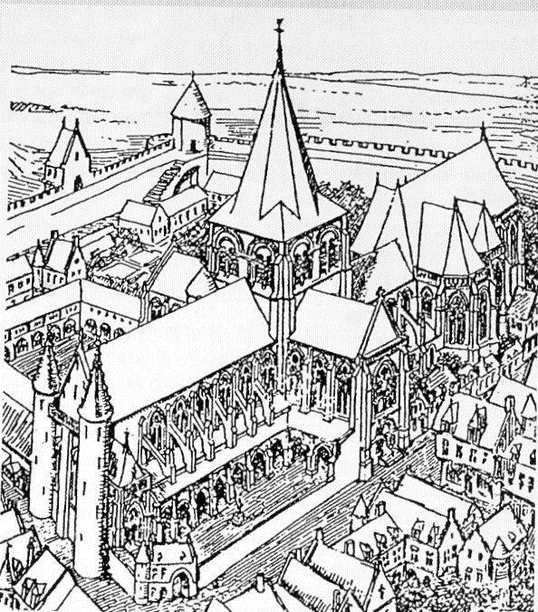 Drawing of the old cathedral of Boulogne-sur-Mer around 1570. The building was destroyed in 1798.